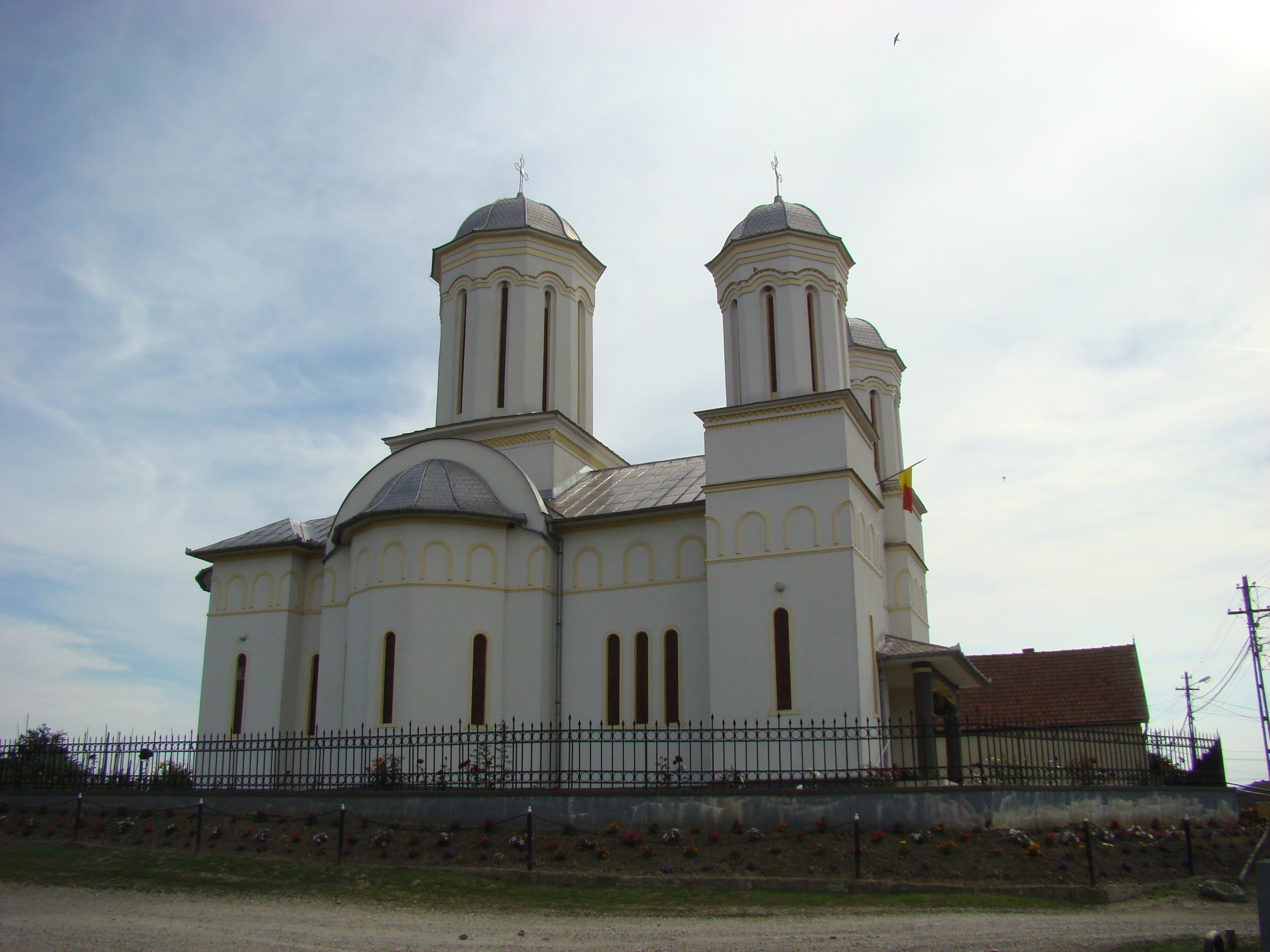 Sâncrai, Alba county, Romania